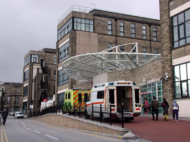 Bradford Royal Infirmary Entrance to the accident and emergency department at Bradford Royal Infirmary on Duckworth Lane.